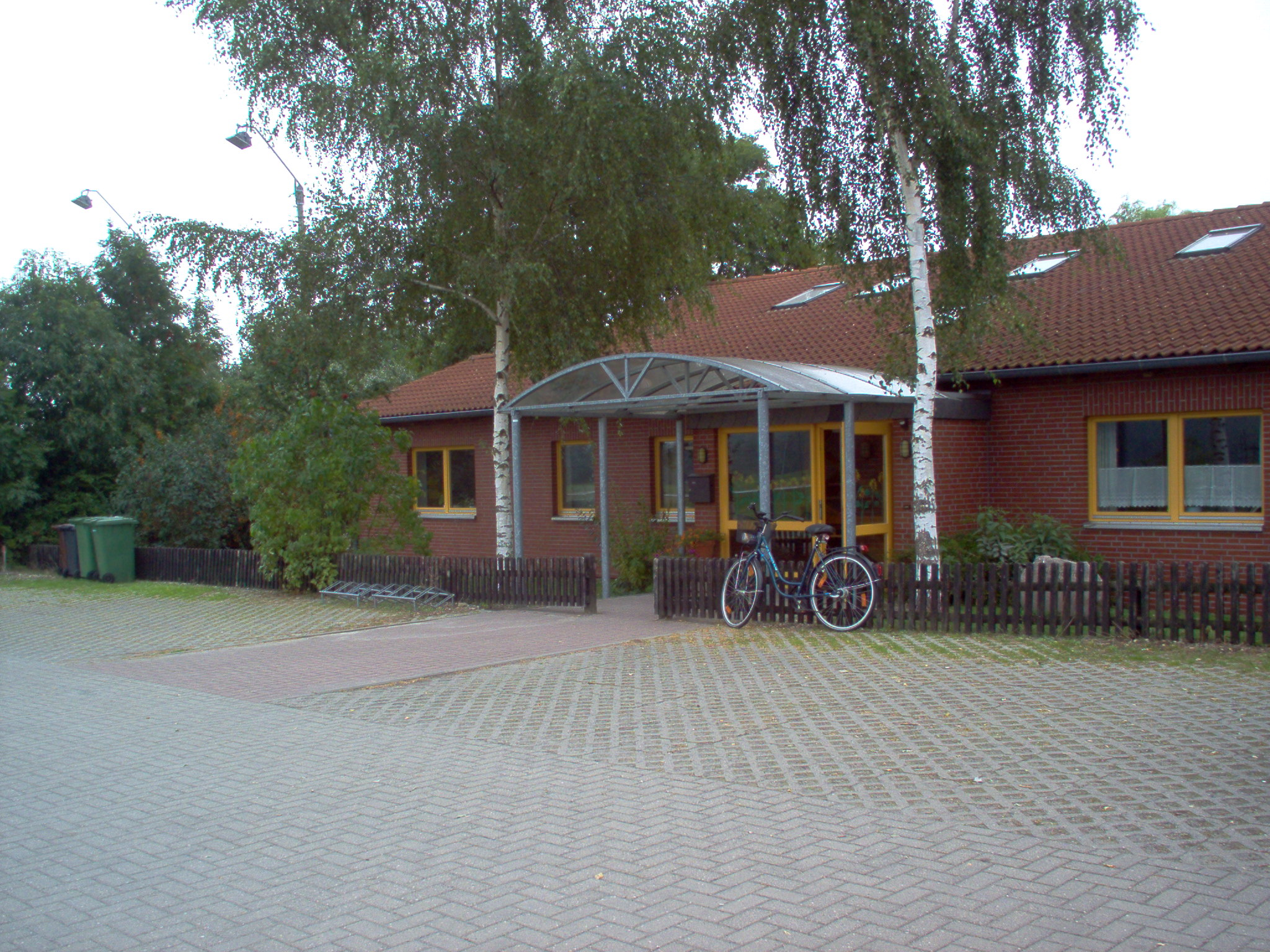 Kindergarten Rethen (Vordorf, Lower Saxony, Germany)